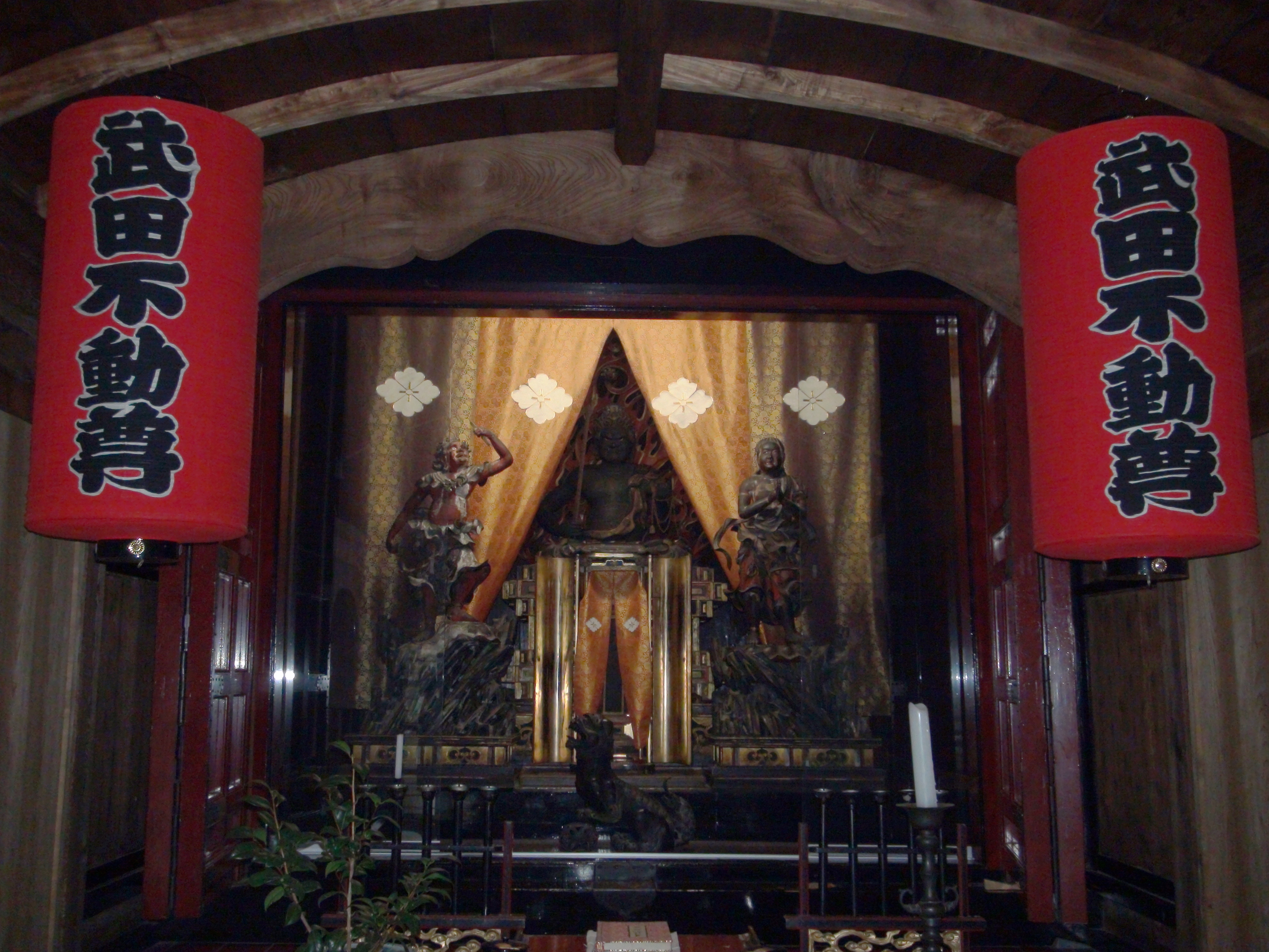 Erinji Takeda Acala